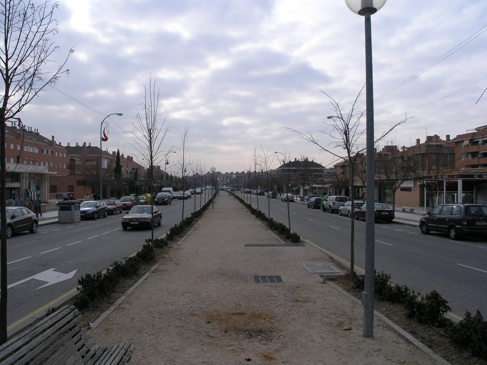 Boadilla